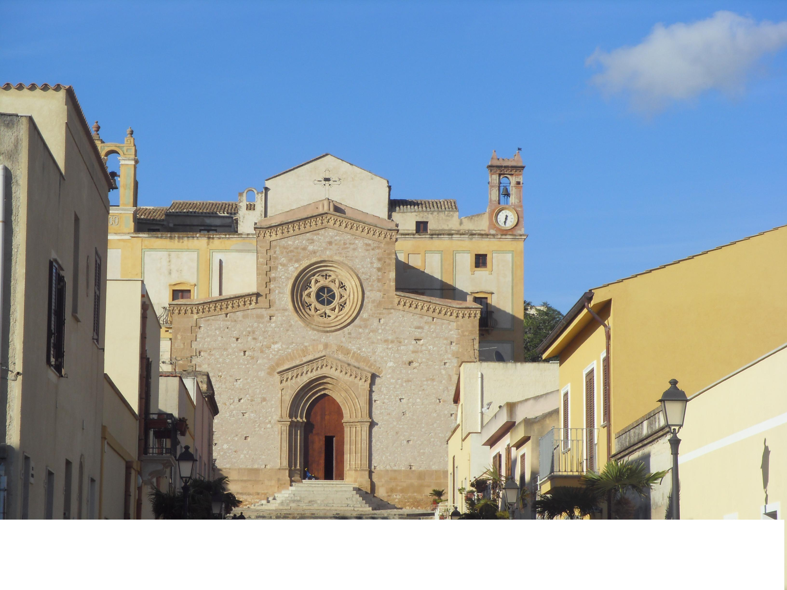 Church of Custonaci